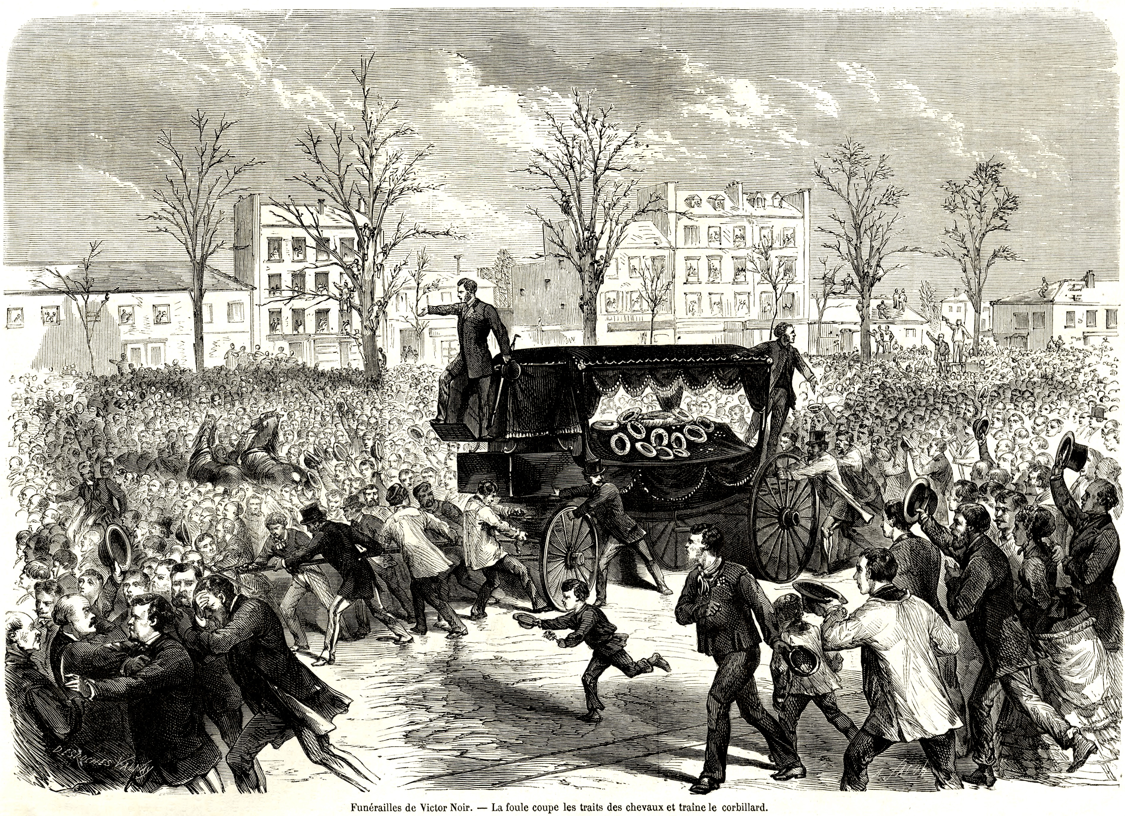 The funeral of Victor Noir.